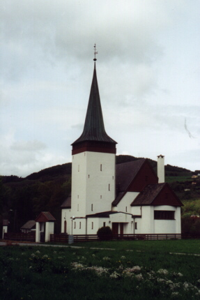 Todays church in Vikebygd, Norway. Own picture. Picture taken from the road, from the North side.